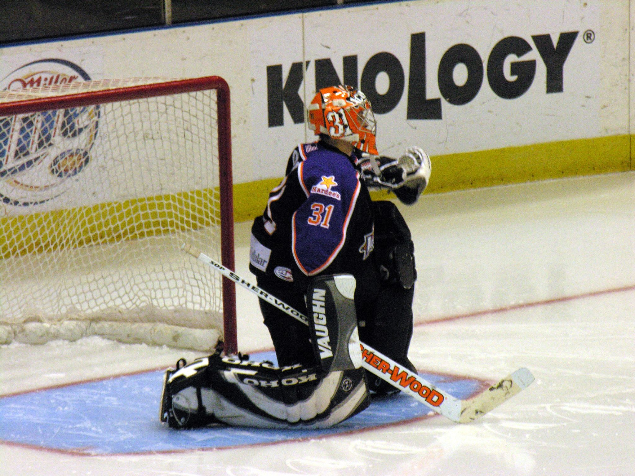 Terry Dunbar, ice hockey goalie of the Knoxville Ice Bears